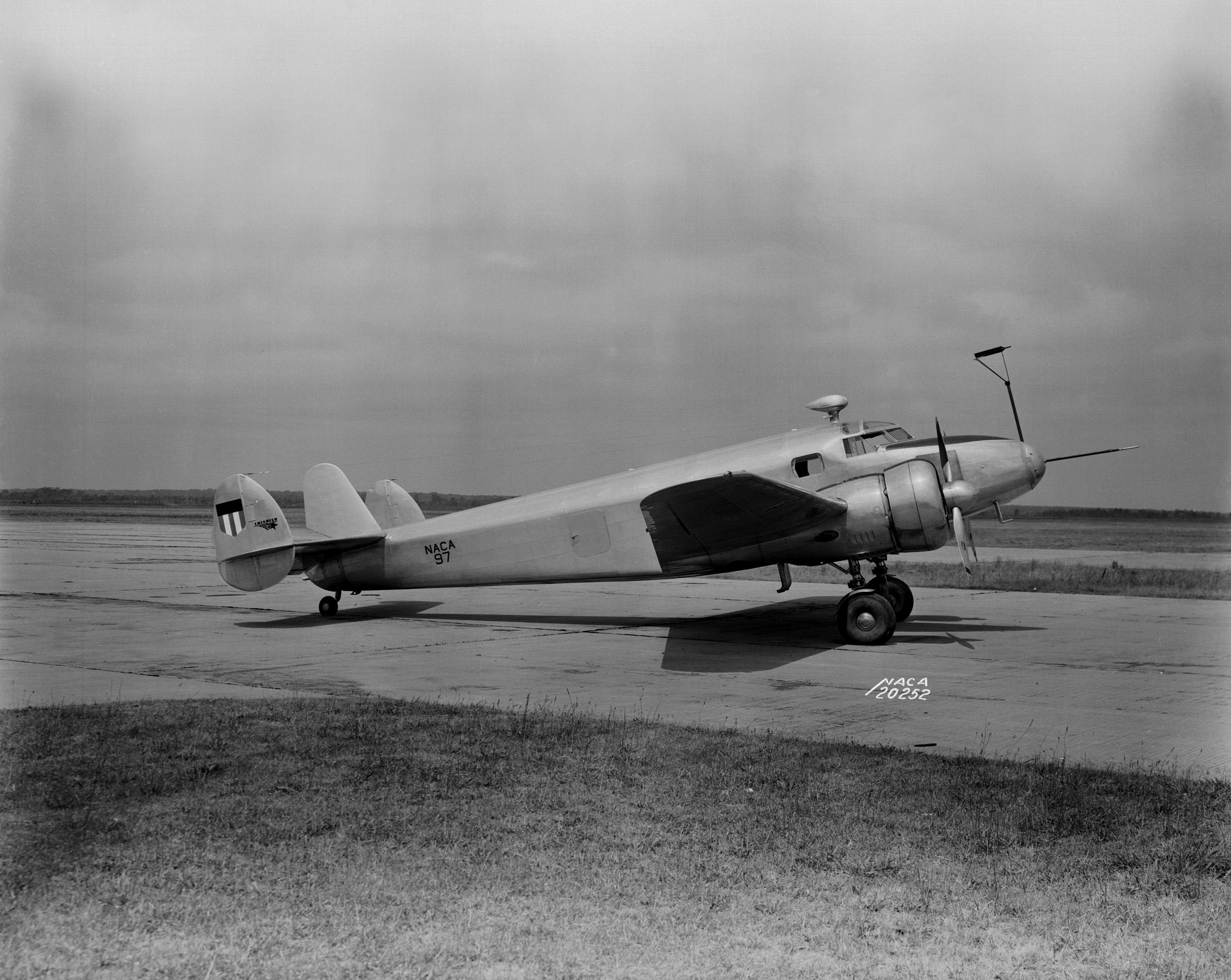 The Lockheed 12A Electra Junior executive transport, as delivered from the factory, only had fins mounted at the tips of the horizontal tail. Langley added a center fin to improve the directional stability of its Lockheed 12A in June 1940. This Electra Junior was also equipped with wing de-icing using engine exhaust. The latter modification resulted in "NACA 97" becoming one of the first aircraft assigned to the newly-opened Ames Aeronautical Laboratory in California. The center fin was removed at the time the aircraft was sold in order to comply with the approved type certificate for the aircraft.